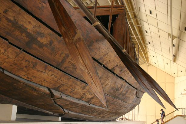 Solar bark of Kheops. Detail. Image taken by Alex Lbh in April 2005.